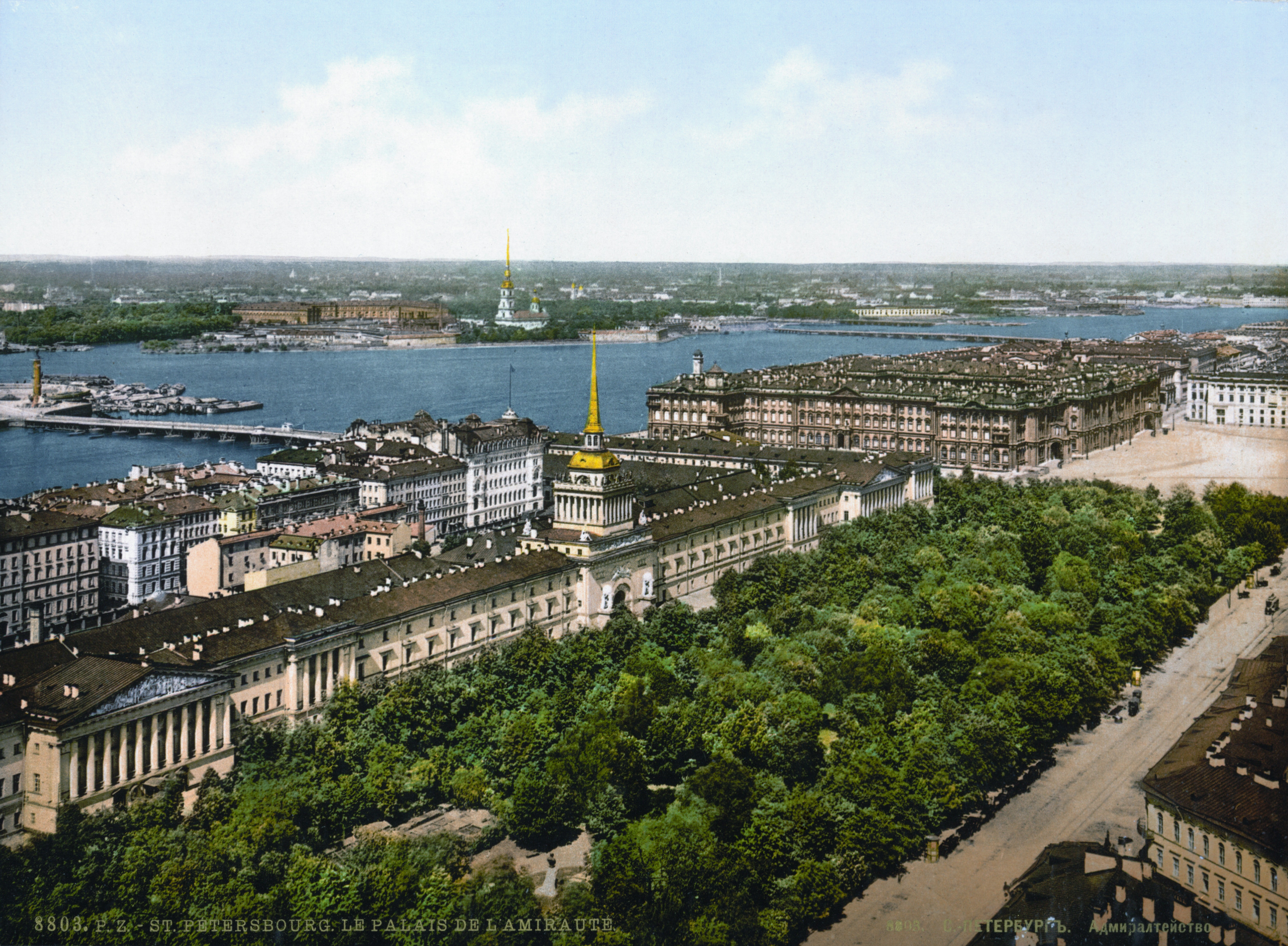 View on Admiralty from Saint Isaac's Cathedral in Saint Petersburg (Russia). 19th-century photochrome print (1890—1900)